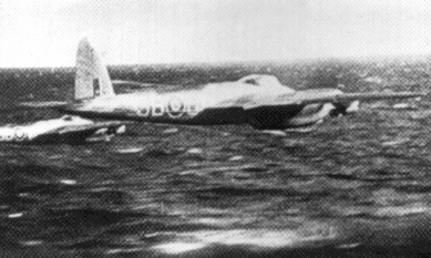 Mosquito bombers of 140 Wing cross the English channel just above the waves on their way to attack the Amiens prison during Operation Jericho